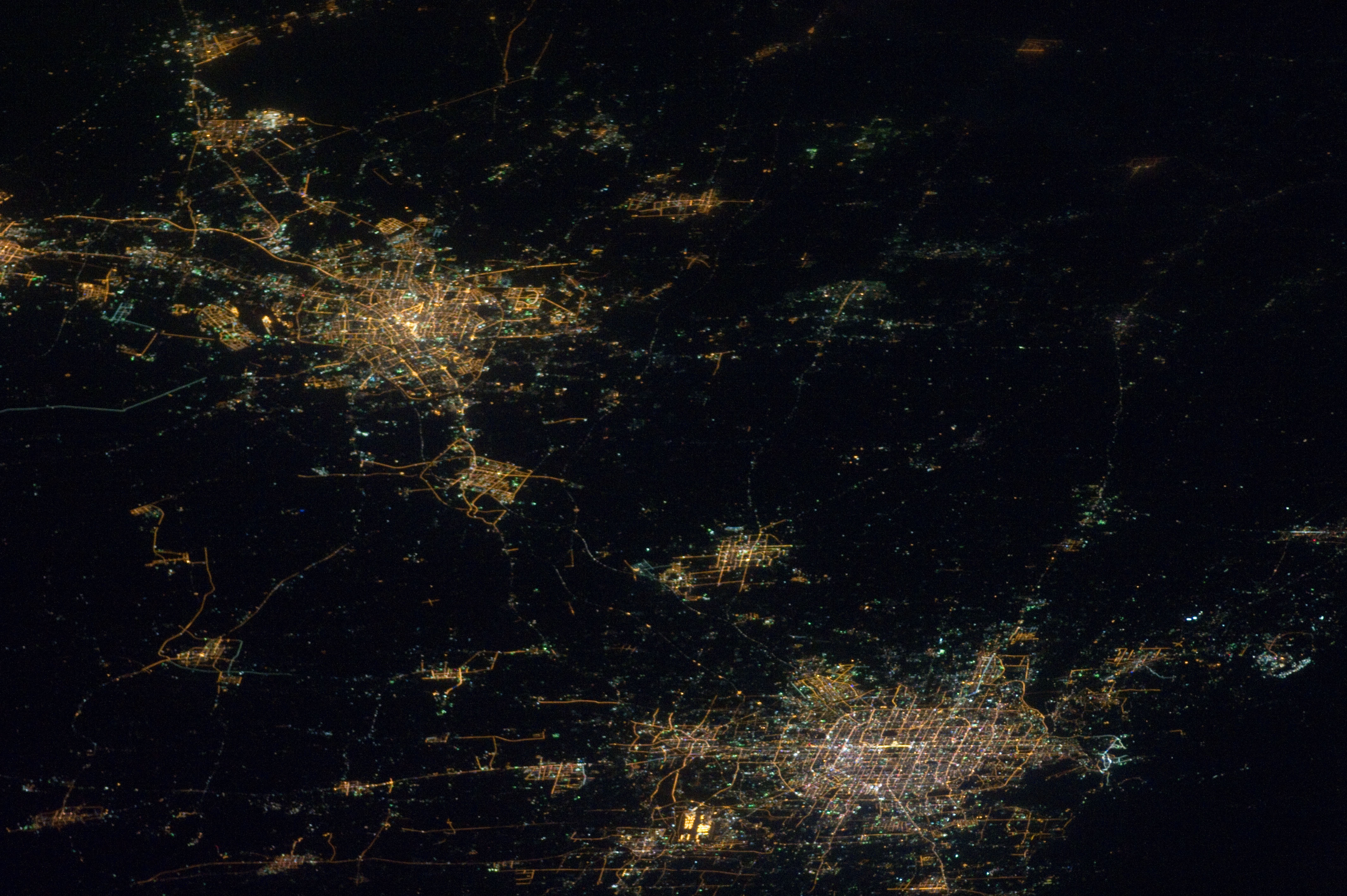 Astronaut photograph ISS026-E-10155) was acquired on December 14, 2010, with a Nikon D3S digital camera using a 180 mm lens, and is provided by the ISS Crew Earth Observations experiment and Image Science & Analysis Laboratory, Johnson Space Center. The image was taken by the Expedition 26 crew. The image has been cropped and enhanced to improve contrast. Lens artifacts have been removed. The International Space Station Program supports the laboratory as part of the ISS National Lab to help astronauts take pictures of Earth that will be of the greatest value to scientists and the public, and to make those images freely available on the Internet. Additional images taken by astronauts and cosmonauts can be viewed at the NASA/JSC Gateway to Astronaut Photography of Earth. Caption by William L. Stefanov, NASA-JSC.